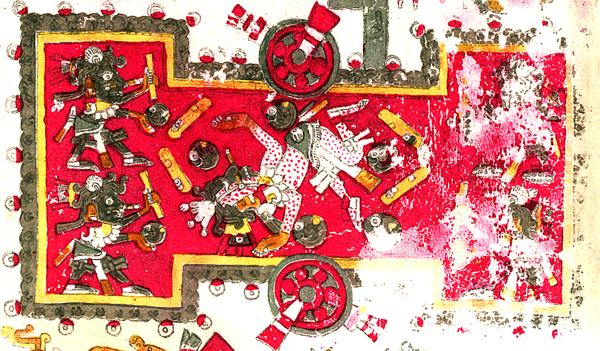 Depiction of a ballcourt and players in the Codex Borgia Fol. 42.